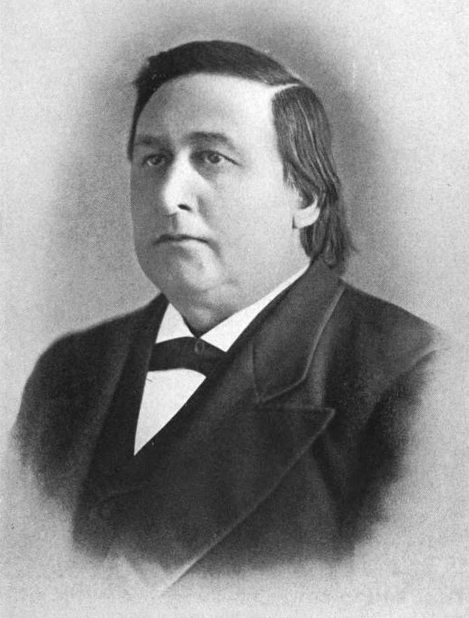 Walter C. Dunton (Vermont Supreme Court Justice)